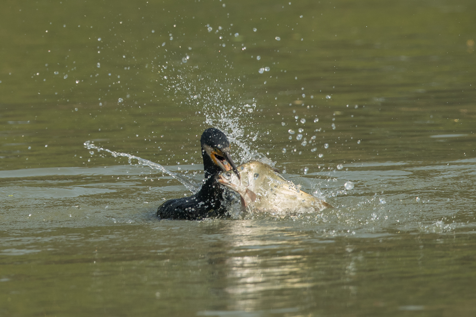 Greater cormorant with Bronze featherback fish from Keoladeo Ghana National park, Bharatpur